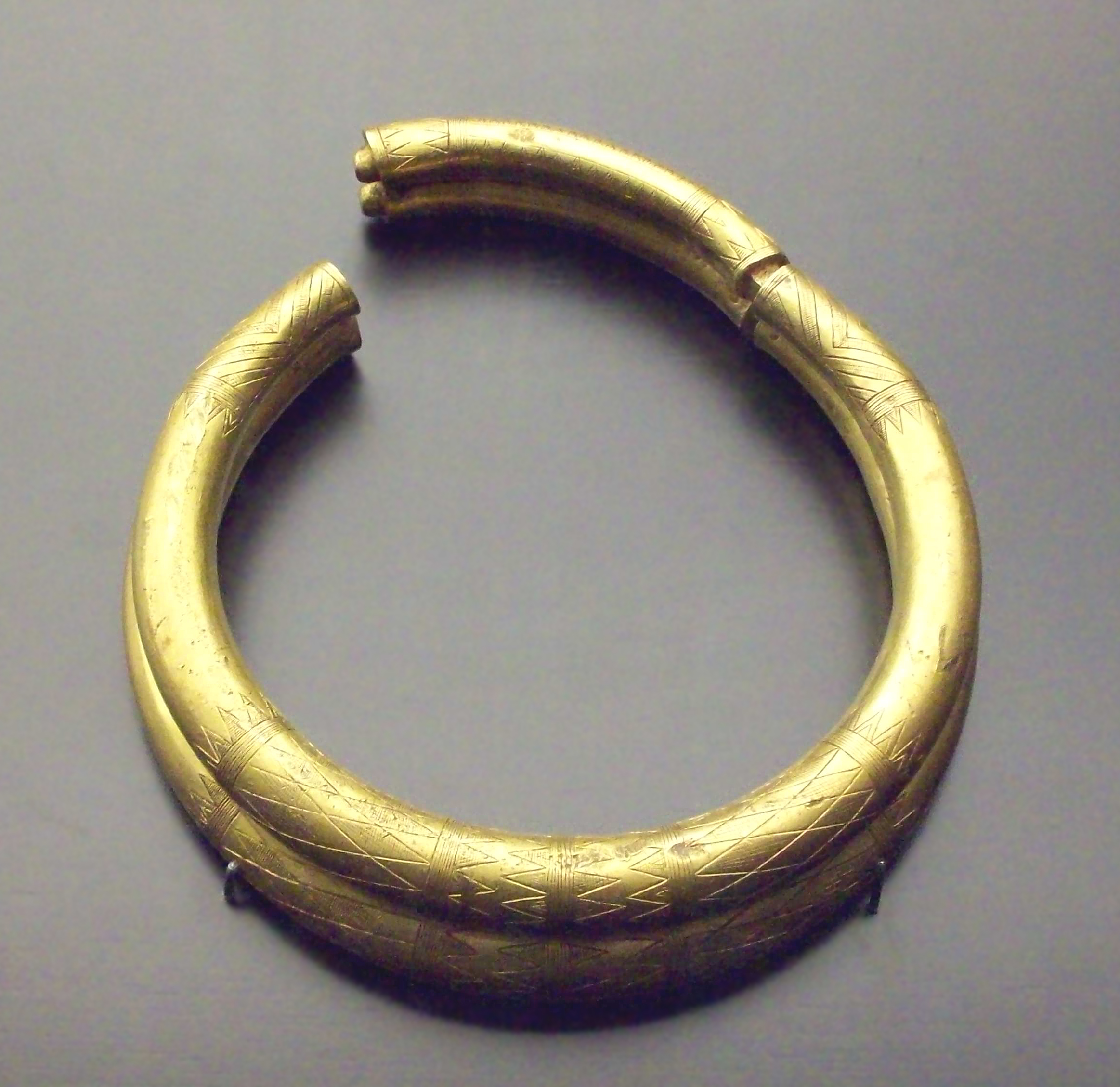 A torc. Typology: Perea 4 A. It's part of the so-called Sagrajas Treasure, a goldwork collection from the Late Bronze Age.